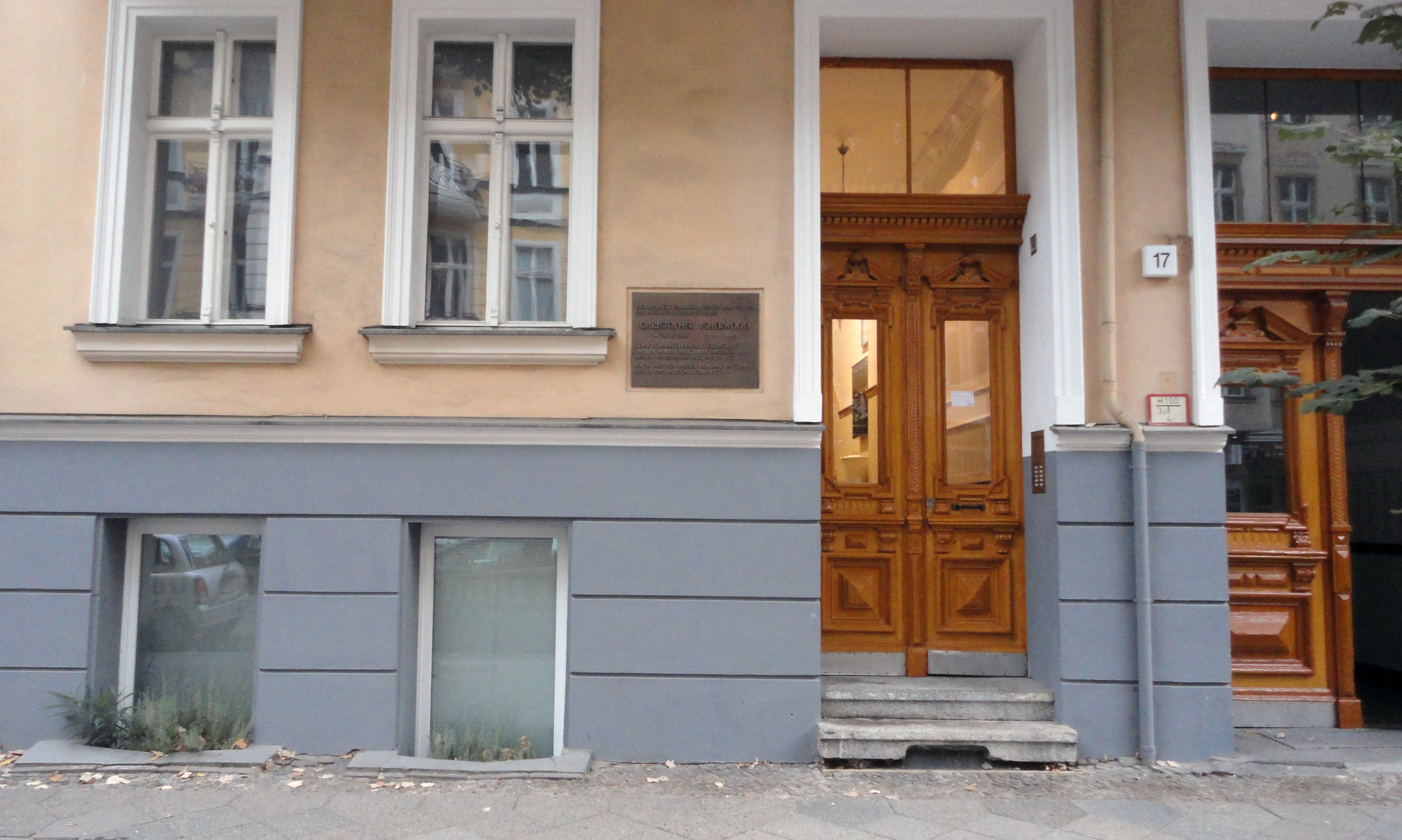 Nollendorfstraße 17, Schöneberg, Berlin, Germany. Christopher Isherwood lived here between March 1929 and January/February 1933.